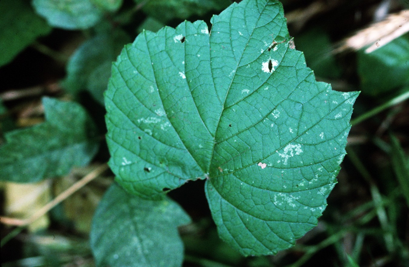 Vitis Vulpina Leaf